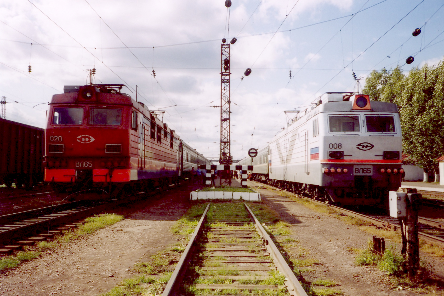 Two electric locomotives VL65 on the Trans-Siberian Railway